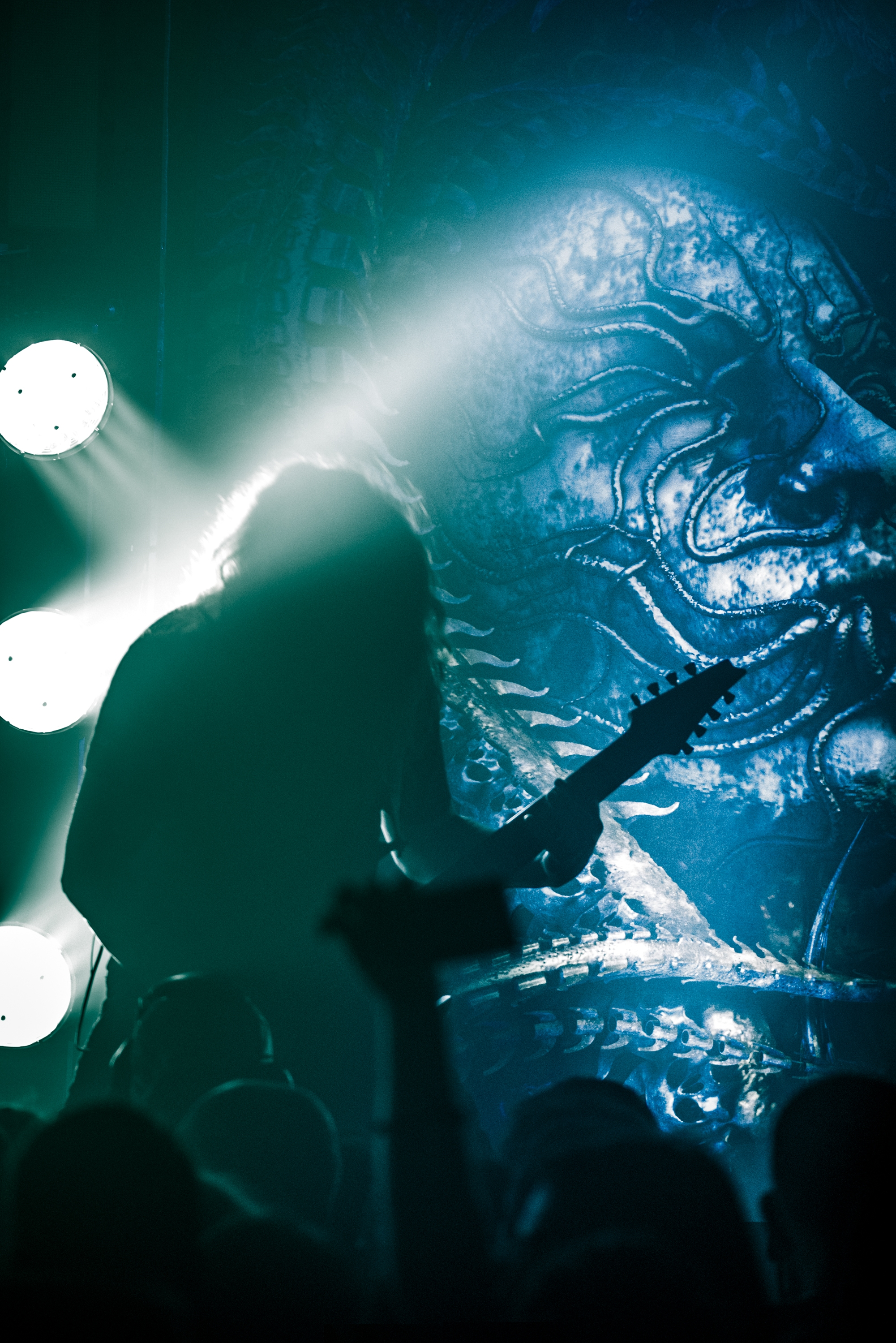 Mårten Hagström, Meshuggah, live 2017